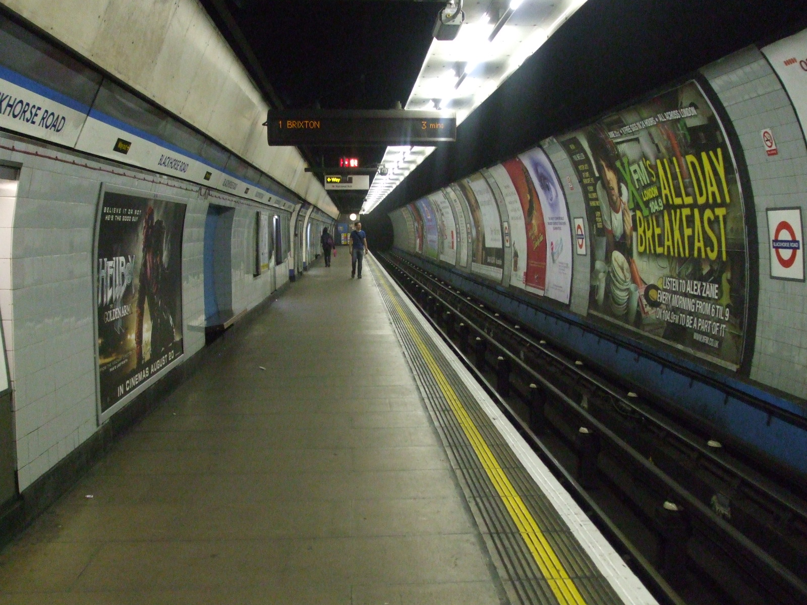 Blackhorse Road station Victoria line southbound platform looking north